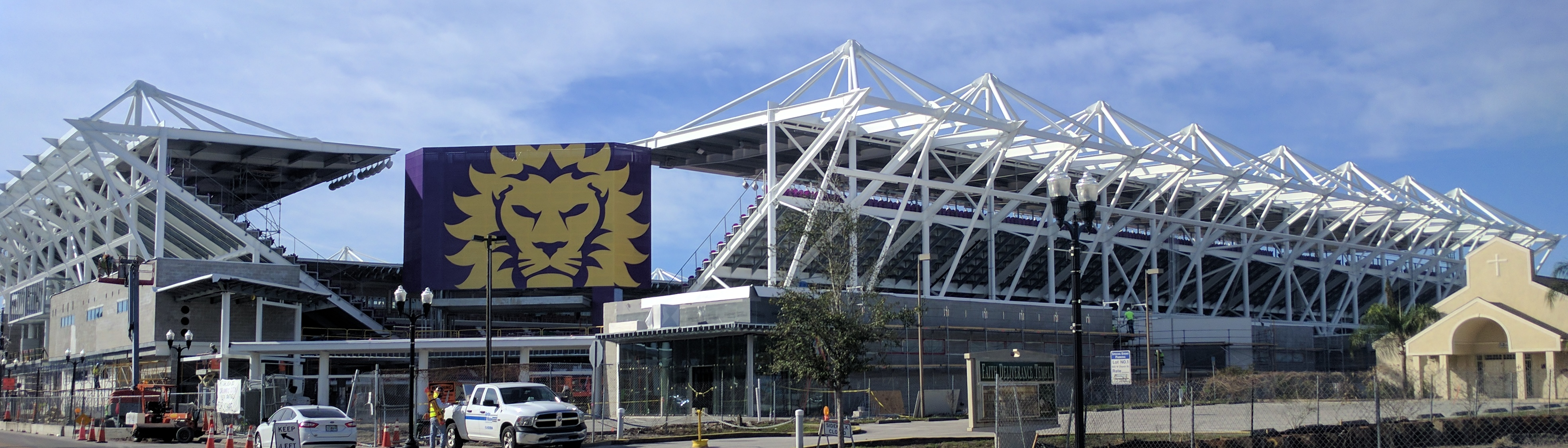 Orlando City Stadium - Three Weeks Before the Open House